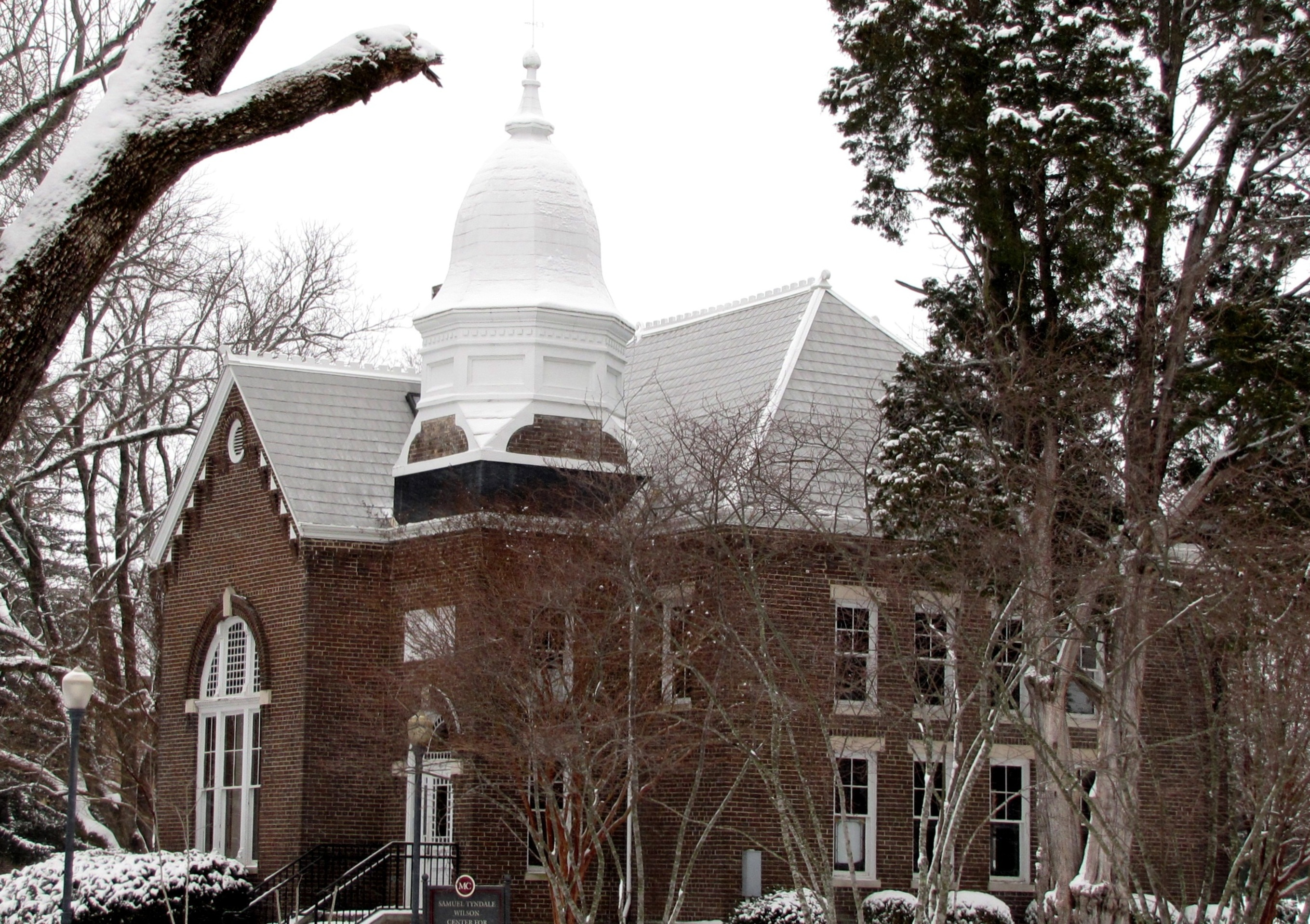 The Wilson Center for Campus Ministries at Maryville College in Maryville, Tennessee, USA. Originally built in 1888 as the Lamar Library, the has since been renamed for Maryville College president Samuel T. Wilson, and now serves as a non-denominational chapel.